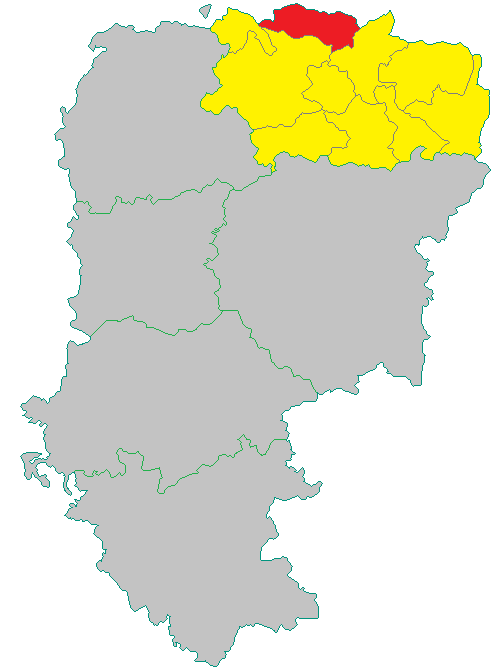 Map of canton of Nouvion en Thiérache